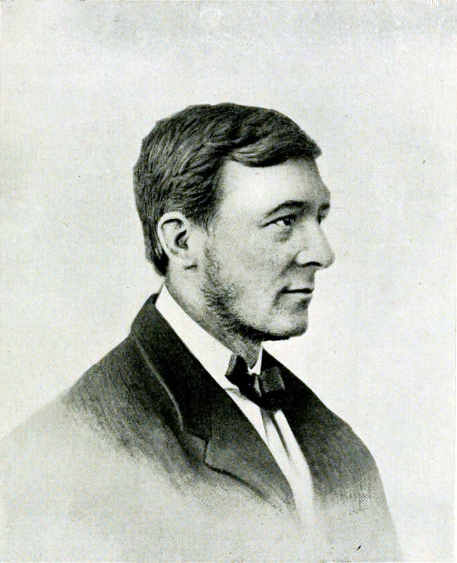 portrait of Daniel Hanbury, from: Alwin Berger (1912). Hortus Mortolensis : enumeratio plantarum in horto Mortolensi cultarum: Alphabetical catalogue of plants growin in the garden of the late Sir T. Hanbury at La Mortola, Ventimiglia, Italy. London: West, Newman. UIN: BLL01007552011. p. 21.